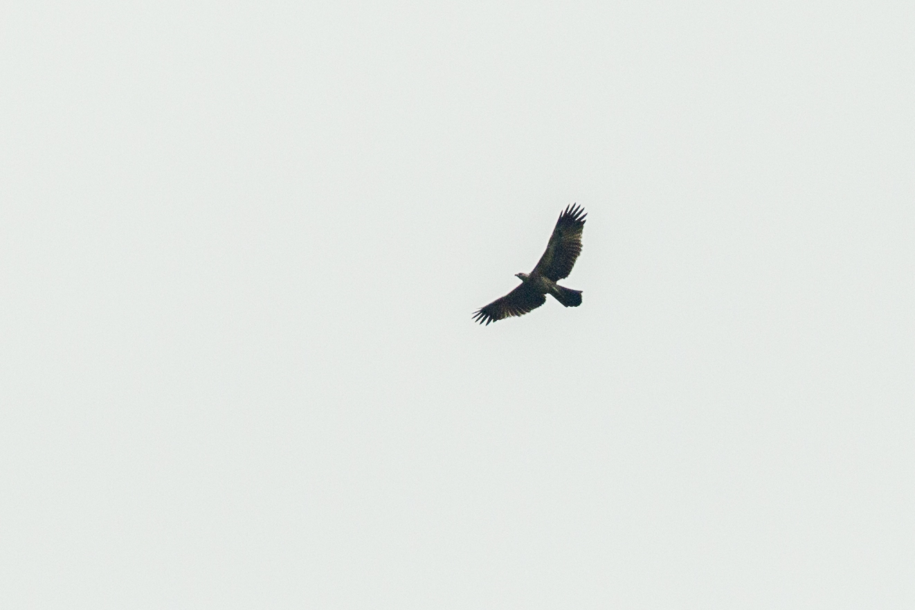 Gurney's Eagle - Halmahera Is - Indonesia_S4E0034